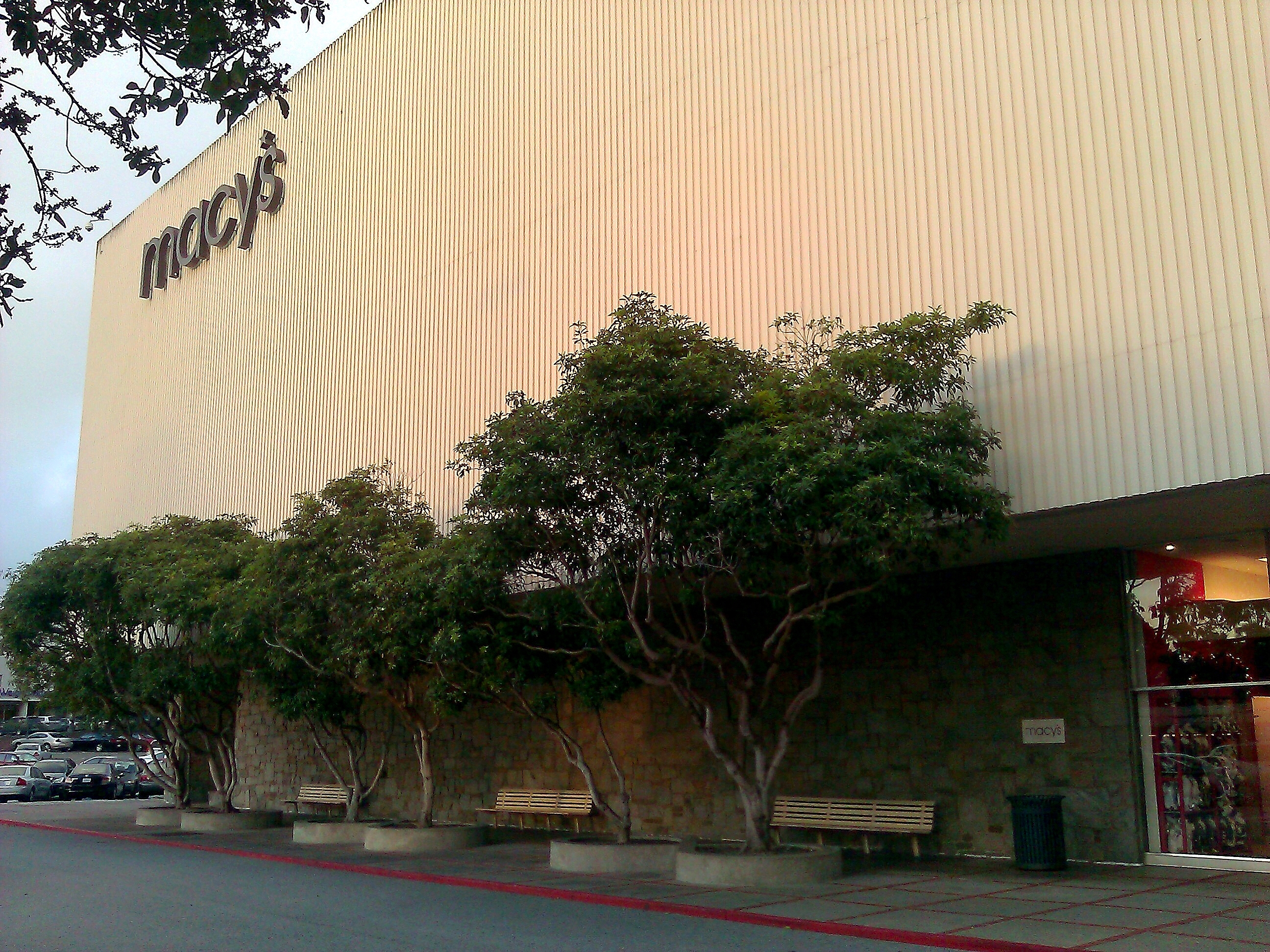 The Macy's department store at the Stonestown Galleria in San Francisco, California. Built by Angus McSweeney, the department store opened as The Emporium on November 6, 1952. {1} The department store was converted into a Macy's when the Emporium was acquired by Federated Department Stores in 1995-1996. The photograph was taken with an HTC 7 Pro mobile and edited (color balance, brightness, contrast, sharpness) using ArcSoft PhotoStudio 5.5